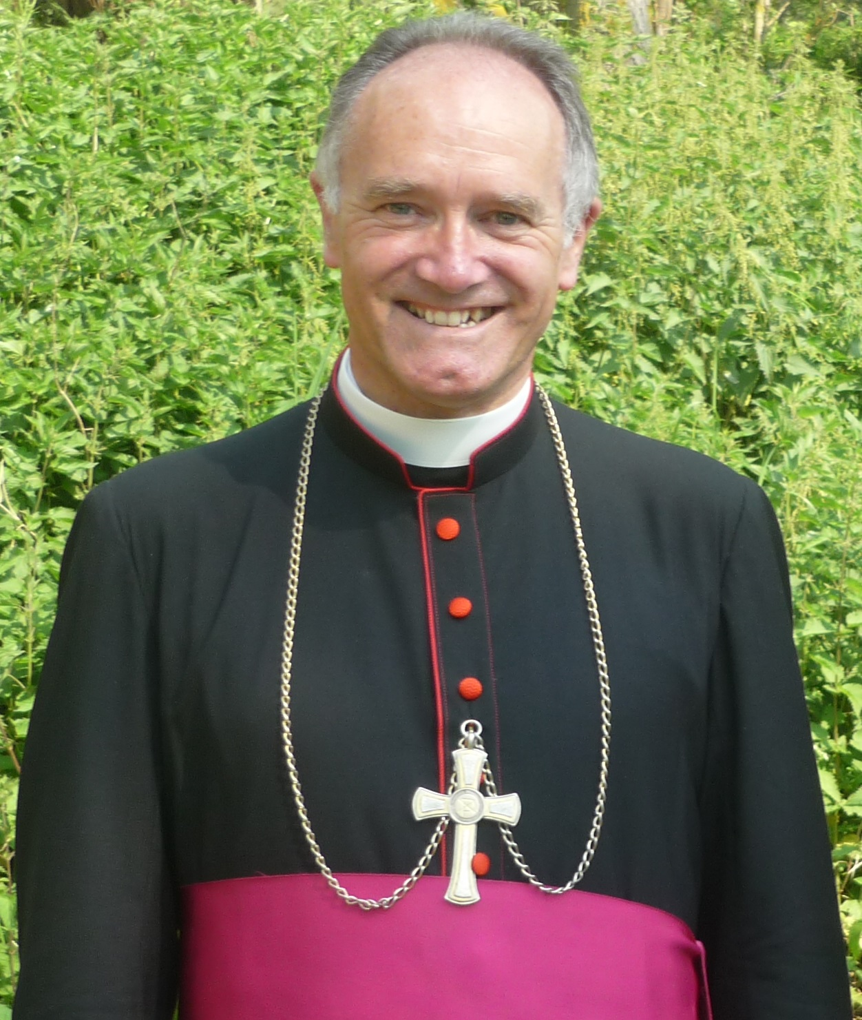 Bishop Bernard Fellay, SSPX in Villepreux, France, June 2012.